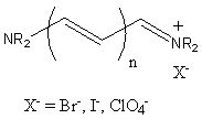 Polymethine cyano dye